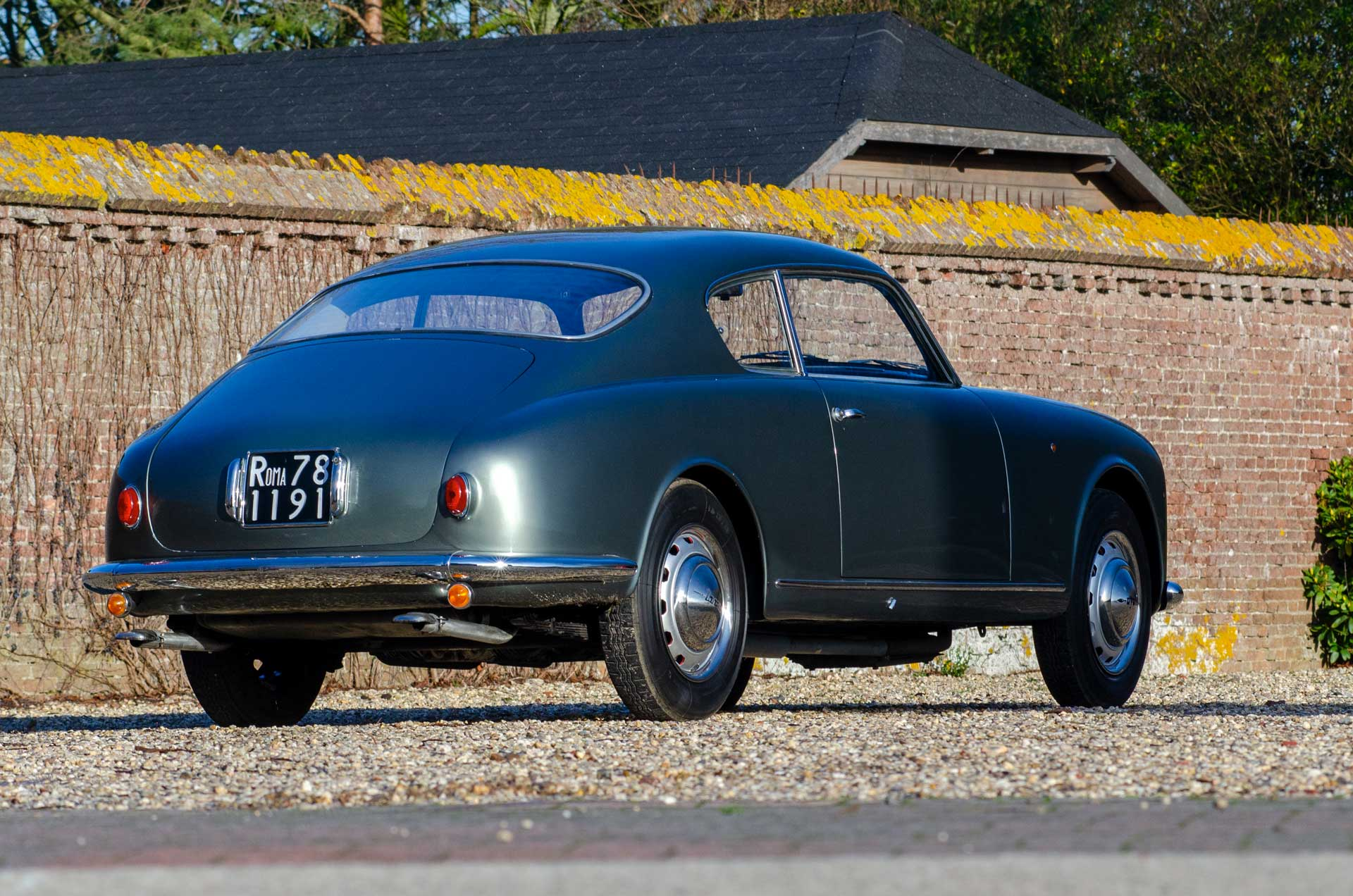 Italian car Lancia Aurelia B20 GT manufactured in 1956, Brummen 2019